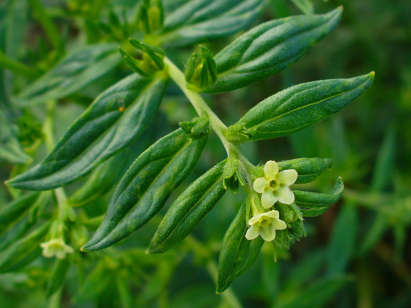 Lithospermum officinale, Boraginaceae, Common Gromwell, European Stoneseed, flowers. The plant is used in homeopathy as remedy: Lithospermum officinale (Mil-s.)